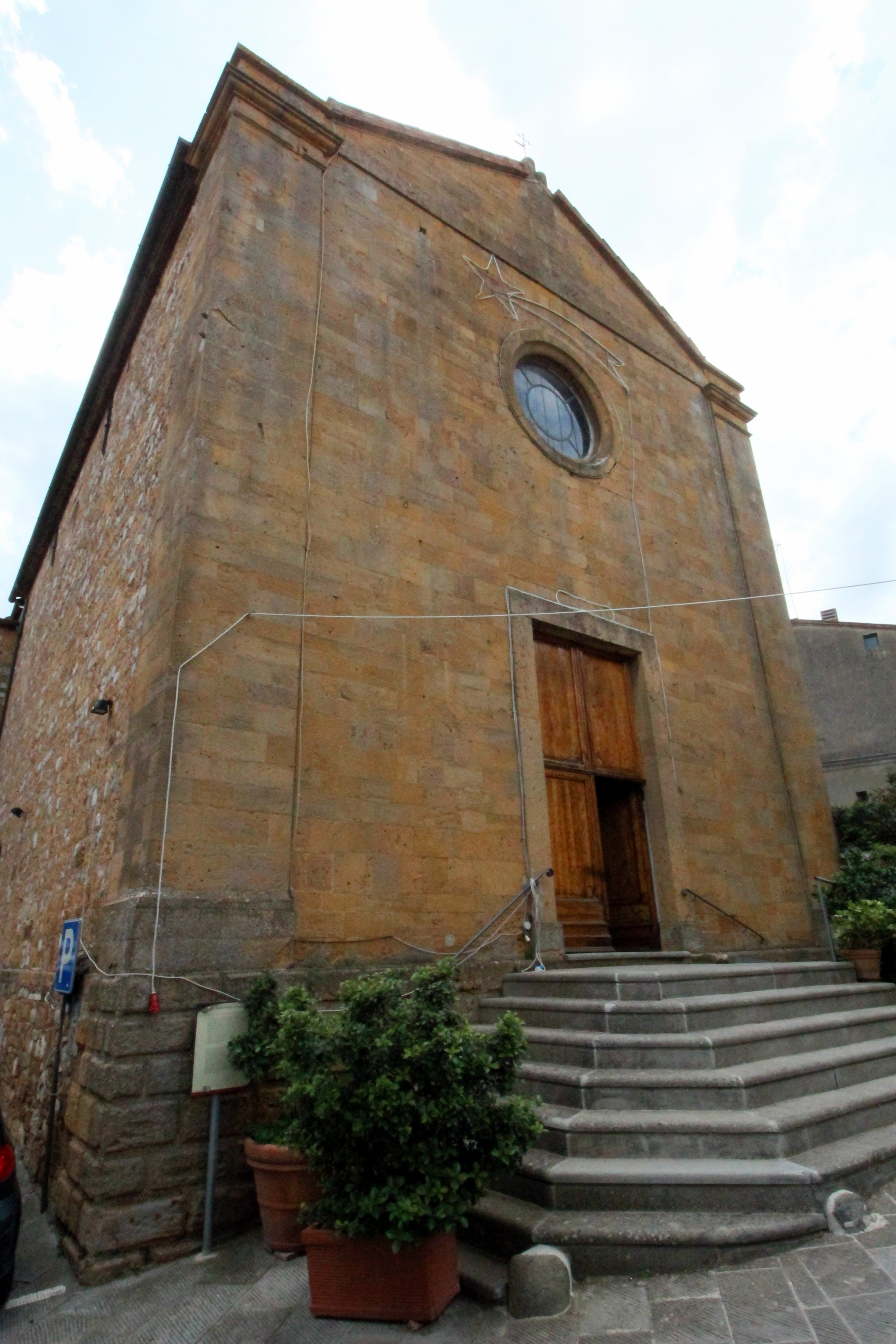 Church Chiesa dei Santi Pietro e Paolo in Petroio, hamlet of Trequanda, Province of Siena, Tuscany, Italy